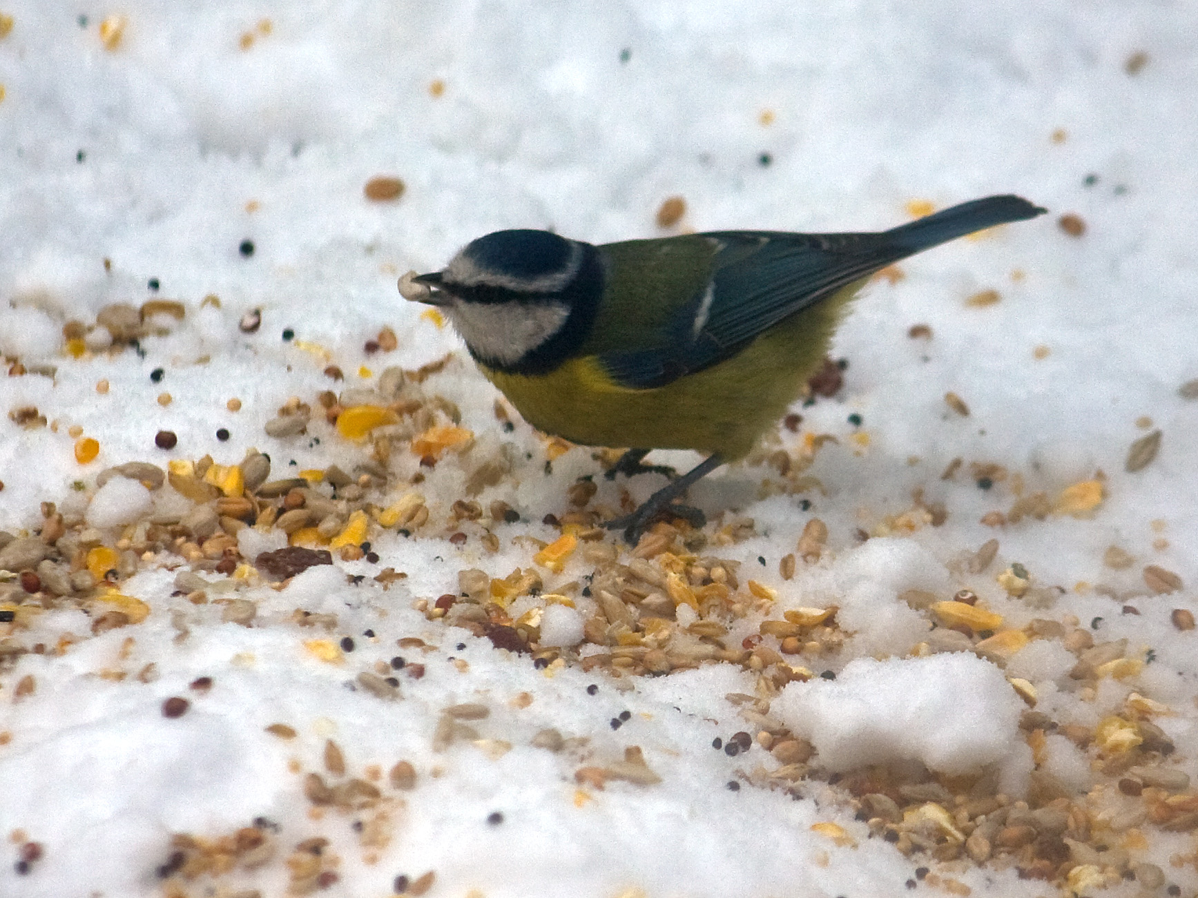 Blue Tit Parus caeruleus - seen taking advantage of some free food. The Sunflower seed hearts like the one it has in its beak were most popular.